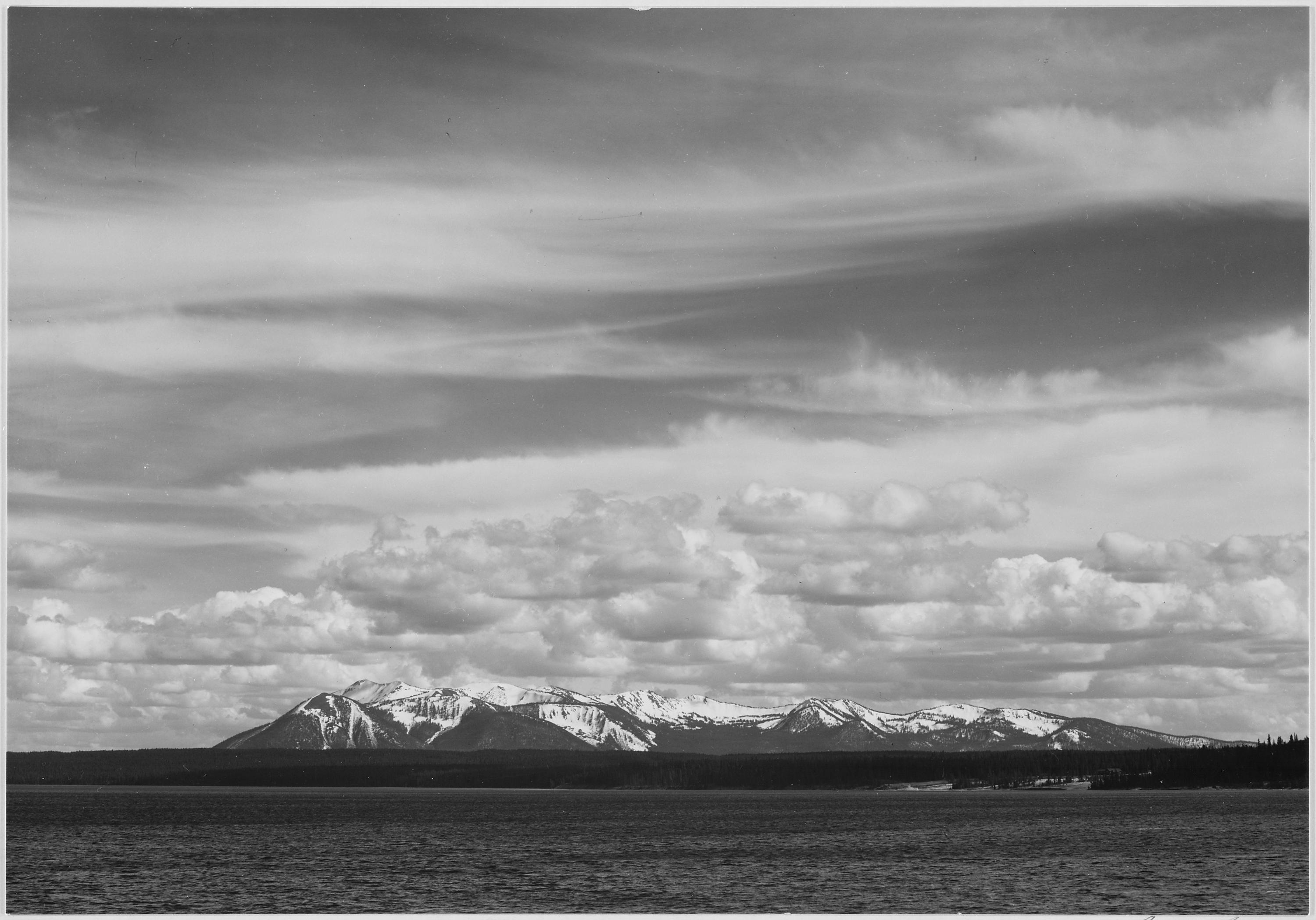 "Yellowstone Lake, Mt. Sheridan," Yellowstone National Park, Wyoming.; From the series Ansel Adams Photographs of National Parks and Monuments, compiled 1941 - 1942, documenting the period ca. 1933 - 1942.